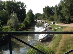 Kanalwartung Buzet 2016